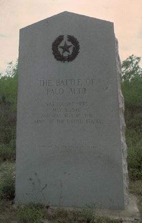 Historical marker of the Battle of Palo Alto. Cropped from a National Park Service/Palo Alto Battlefield National Historic Site image.